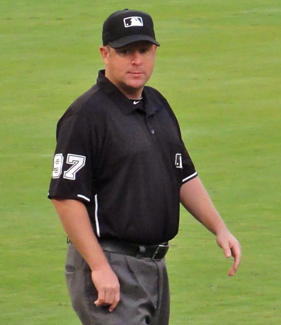 MLB umpire Todd Tichenor at Sun Life Stadium during a Marlins - Reds game, 2011.